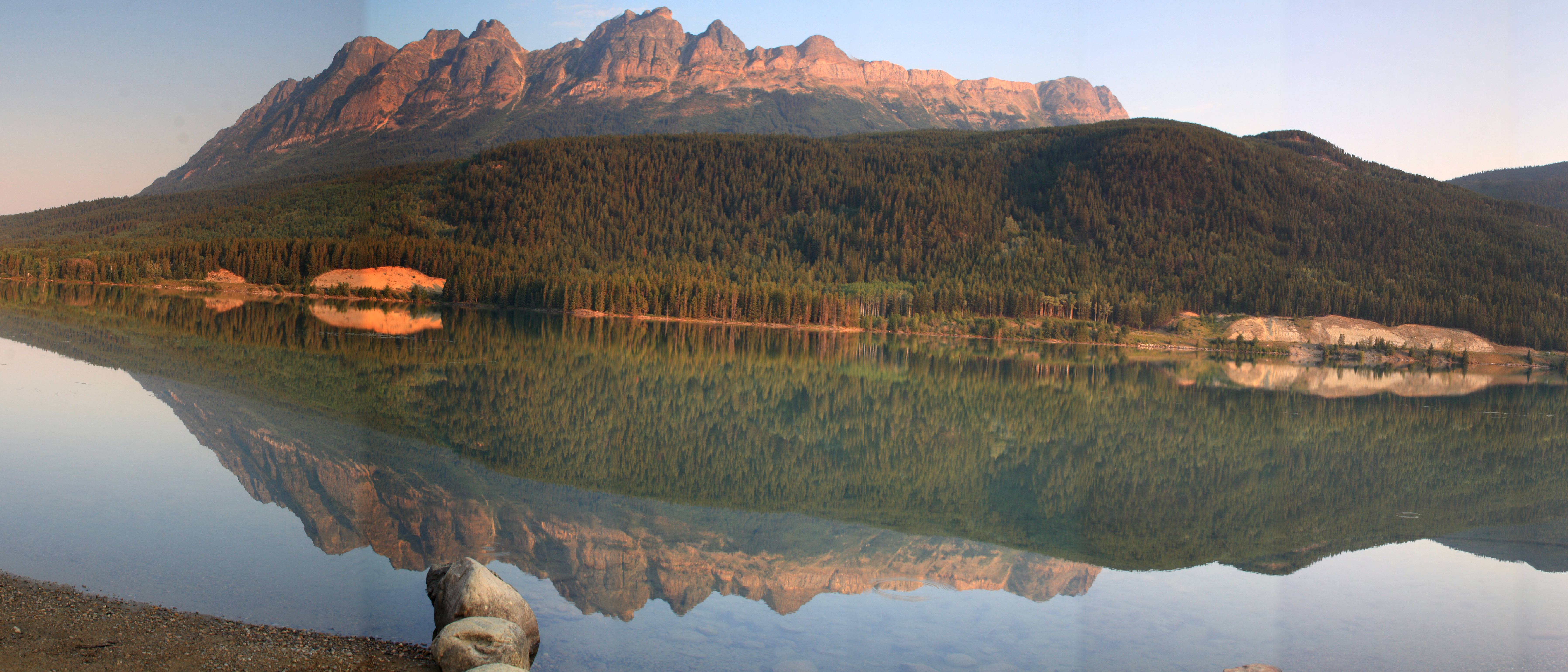 I spent a few days in Jasper National Park in Alberta, Canada as part of my Summer 2009 "This Sure Beats Working" tour. I drove into Jasper from Mt. Robson - incredible scenery despite air thick with smoke from forest fires in British Columbia. Jasper is incredibly gorgeous - almost as good as Alaska - if you have a chance, check it out!